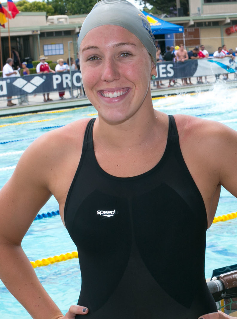 Abbey Weitzel portrait